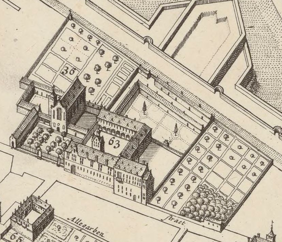 Detail of 1695 map by J. Laboureur & Josse van der Baren, Bruxella, nobilissima Brabantiæ civitas